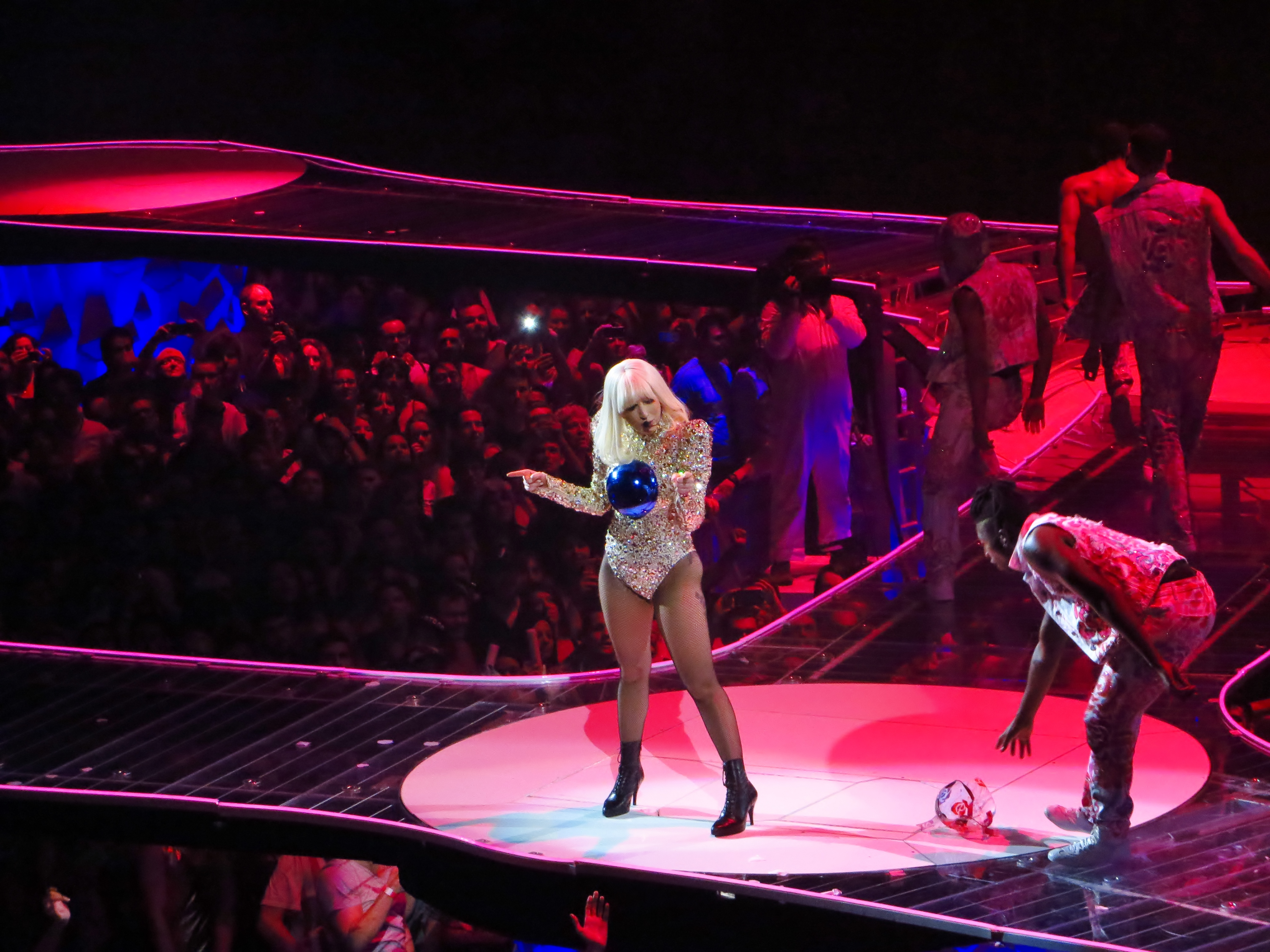 Lady Gaga, ARTPOP Ball Tour, Bell Center, Montréal, 2 July 2014 (7) Gaga performing on ArtRave: The Artpop Ball tour